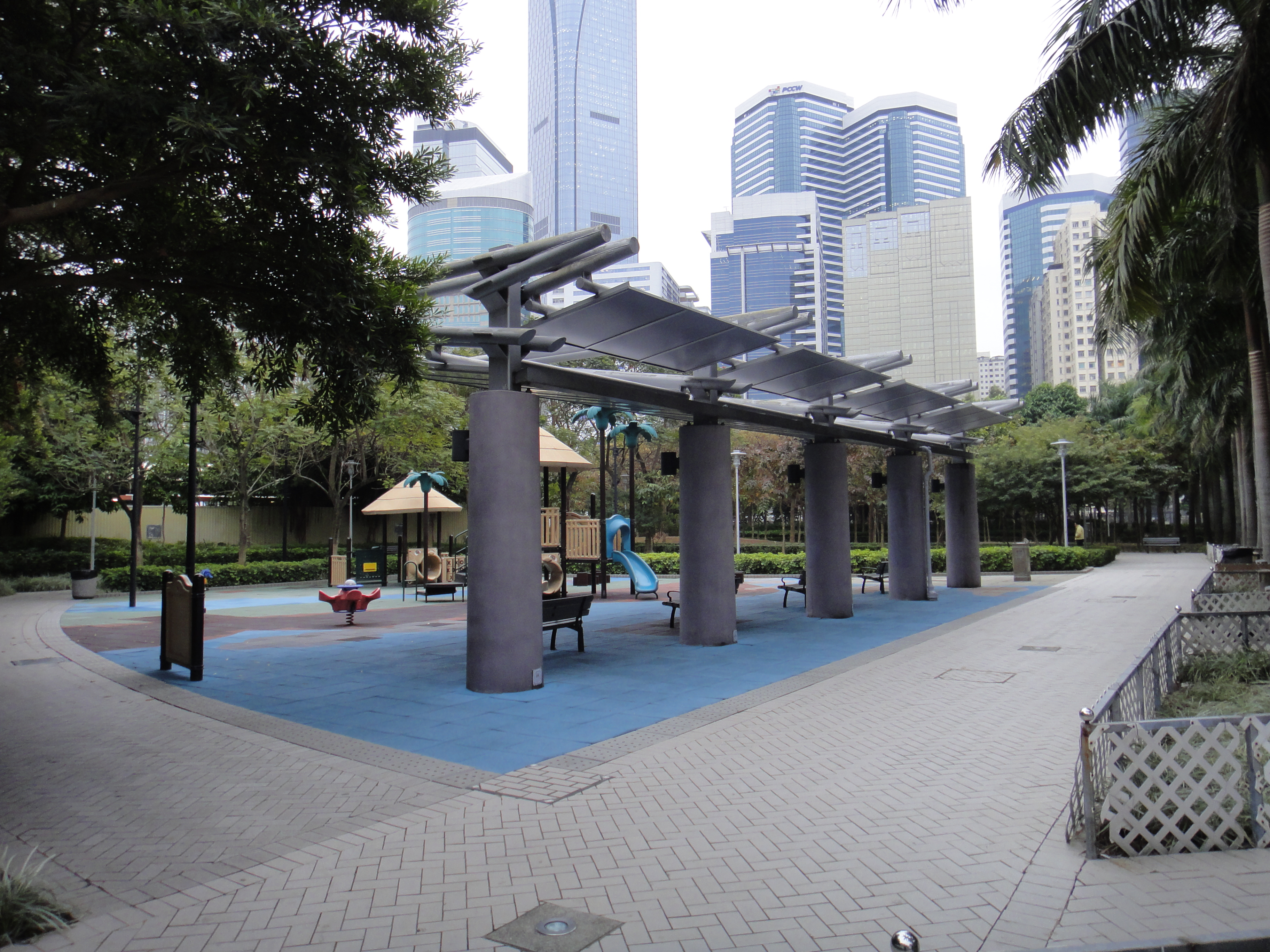 Quarry Bay Park Image